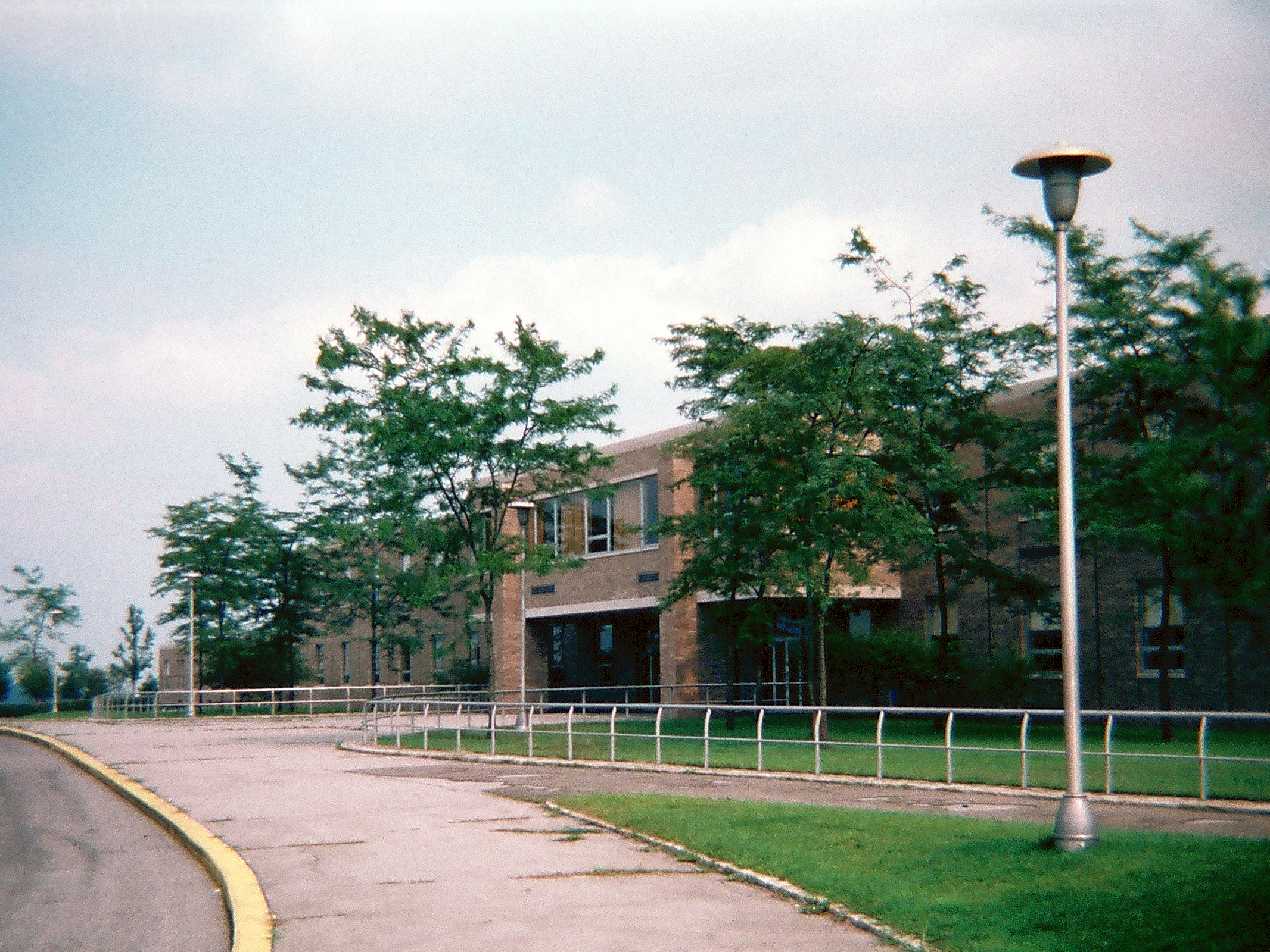 Carson Middle School in Pittsburgh, Pennsylvania.